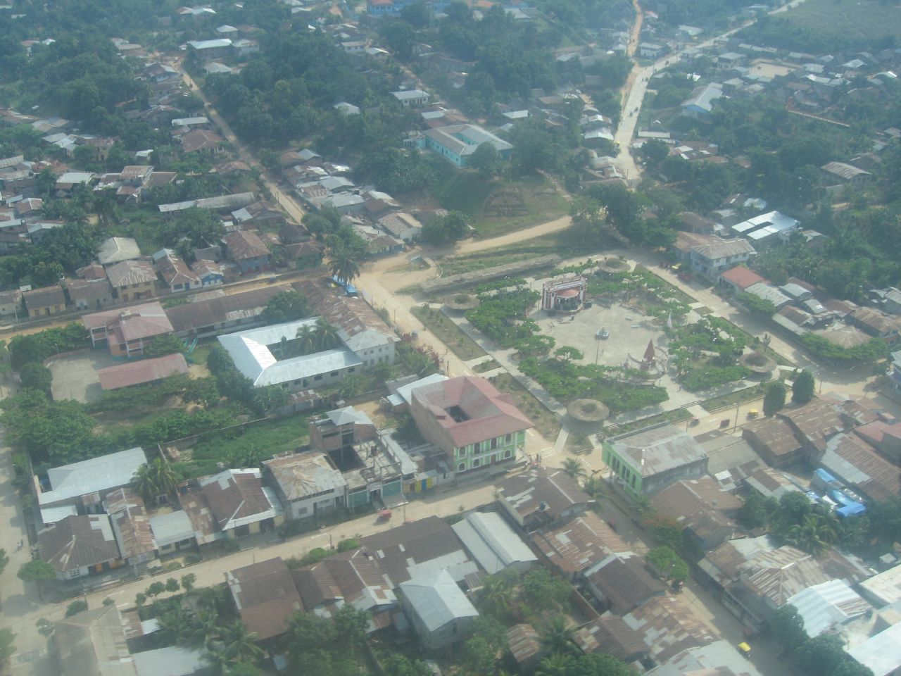 Aerial view of Contamana, Perú in a helicopter.